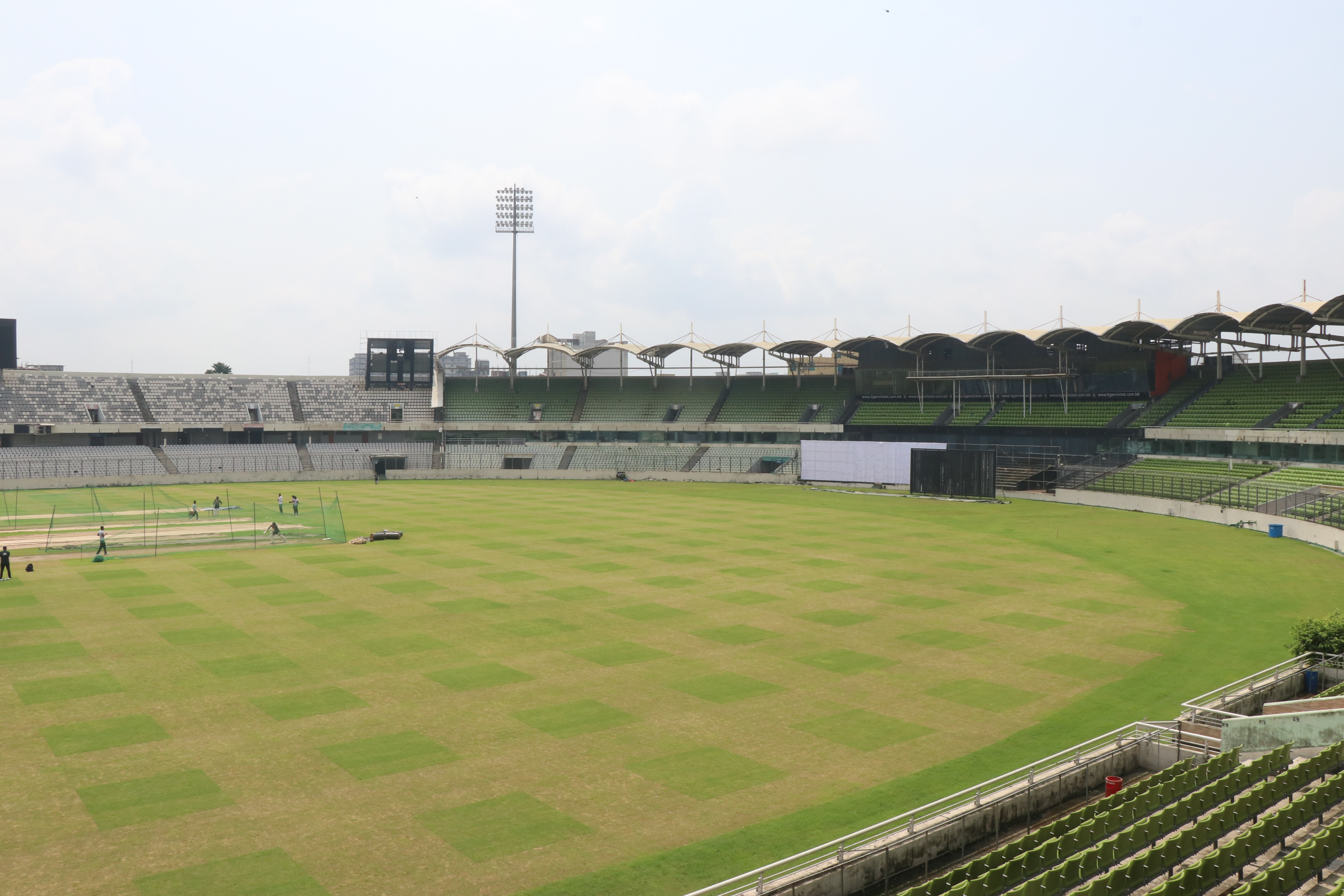 Sher-e-Bangla National Cricket Stadium ground